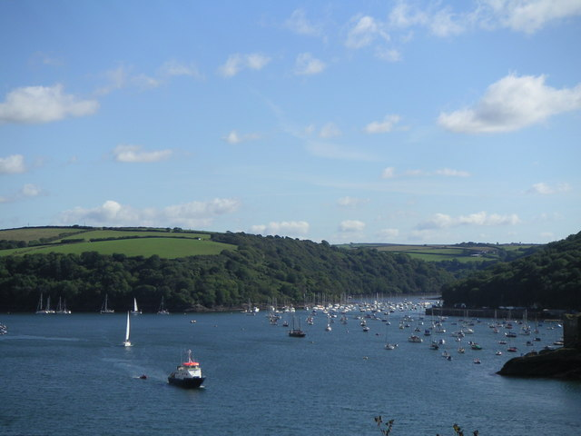 Penleath Point and Fowey Harbour Taken from the remains of St.Catherine's Castle. Penleath Point is near the centre of picture, above the large boat.The River Fowey, to the left, meets the sea about here.The more distant small craft are moored in Pont Pill (a pill is a small tidal inlet/creek usually having a muddy bottom).The two headlands from the right are Brawn Point, upper, and part of the rocky shoreline of Polruan...the water between is Polruan Pool.